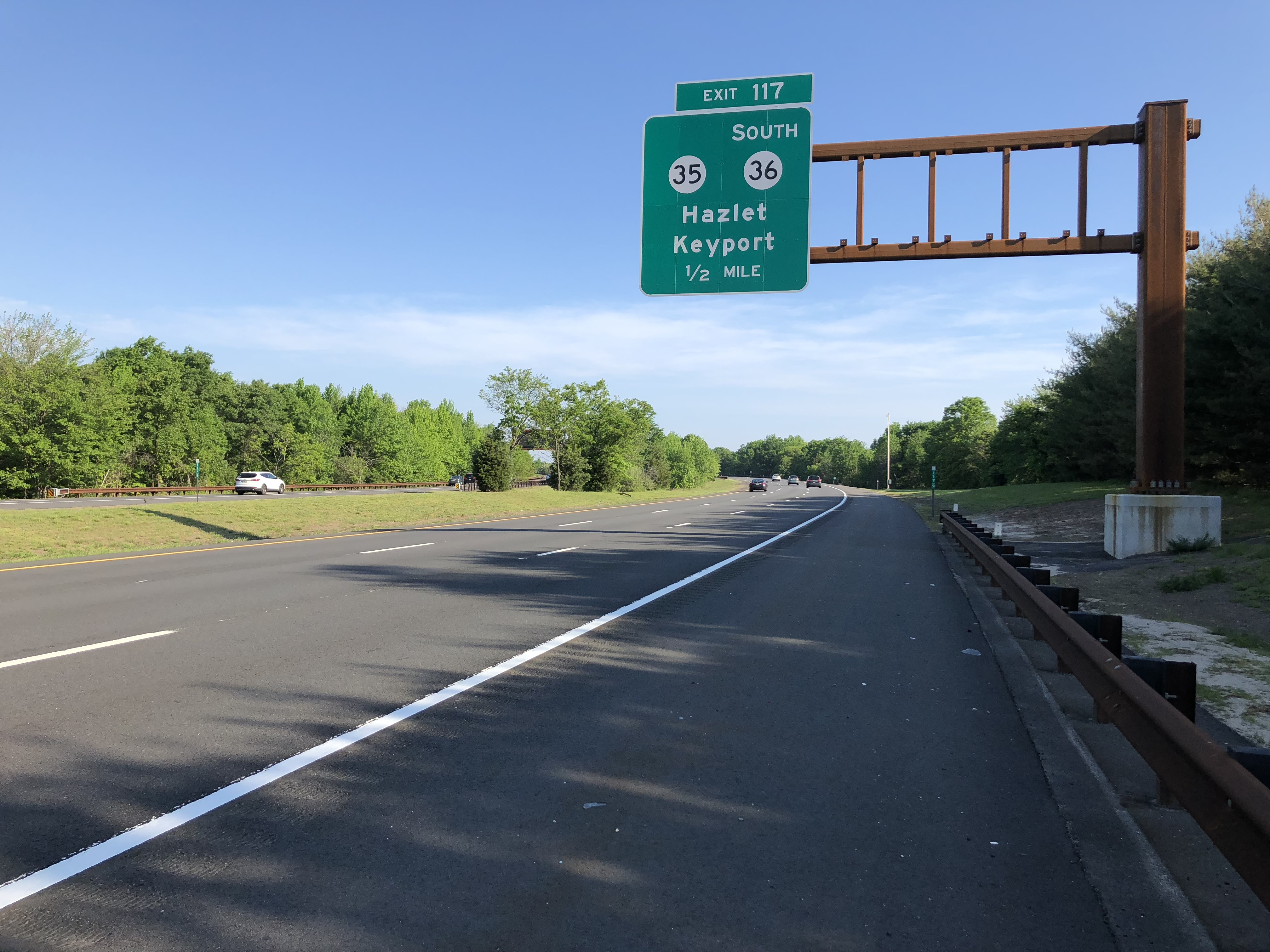 View north along New Jersey State Route 444 (Garden State Parkway) just south of Exit 117 (New Jersey State Route 35, New Jersey State Route 36 SOUTH, Hazlet, Keyport) in Hazlet Township, Monmouth County, New Jersey